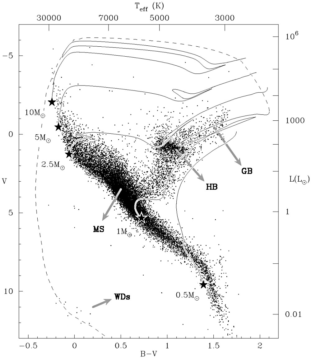 Colour-magnitude diagram for 20546 nearby stars